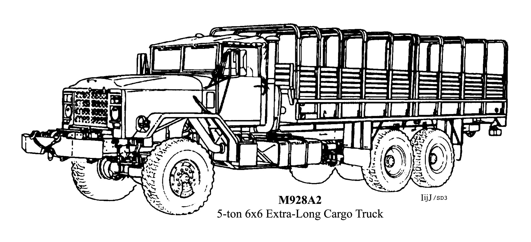 M928A2 "Truck, Cargo, 5-ton, 6x6, XKWB" drawing from a US Army Technical Manual, labeled and cropped for size